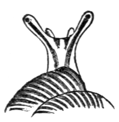 drawing of the head of Strobilops labyrinthicus